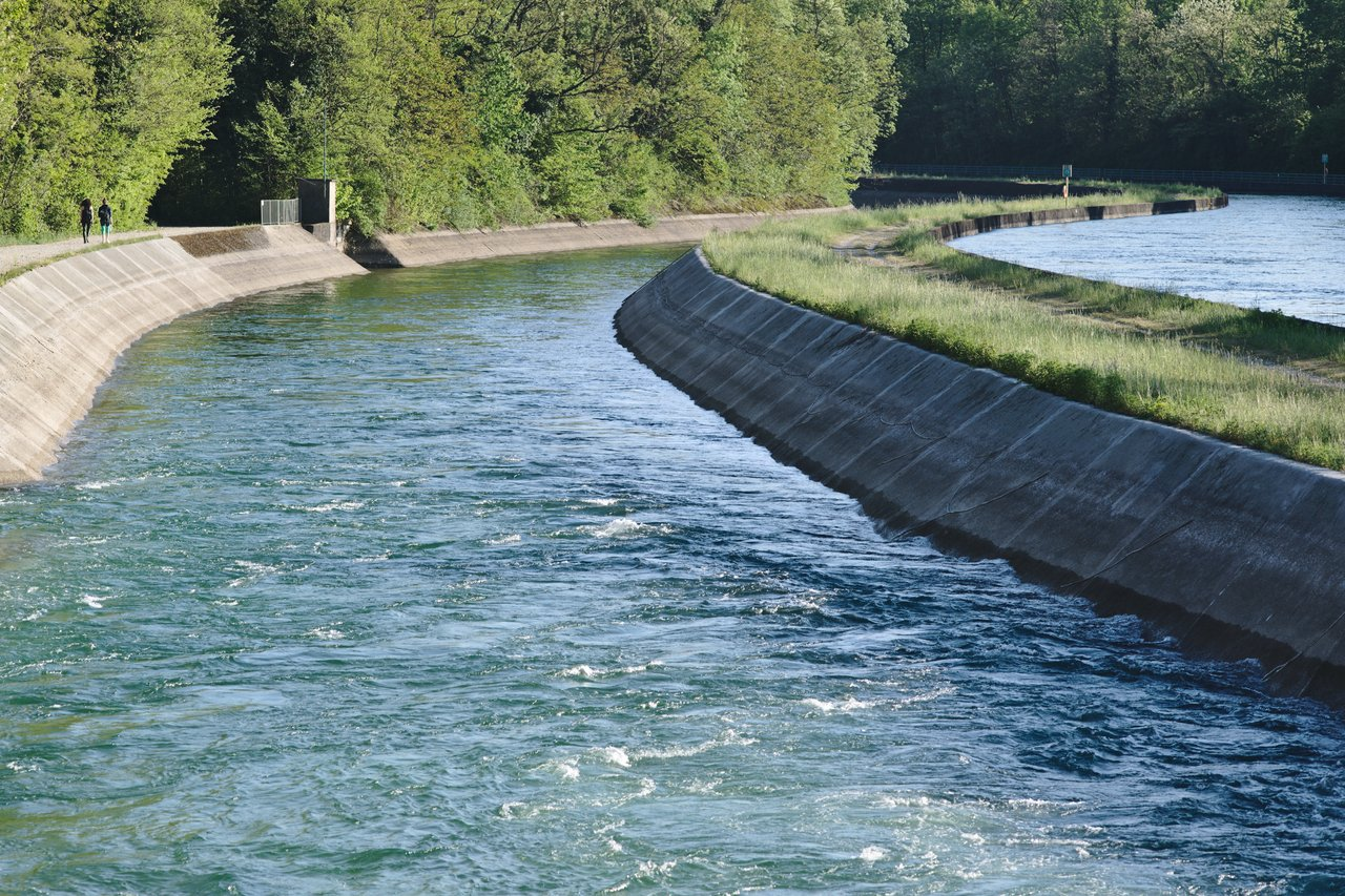 Villoresi canal after the source gates. On the right is the industrial canal.